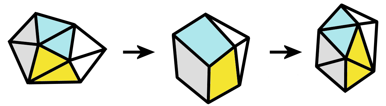 Diamond-square-diamond (DSD) rearrangement. At each vertex a boron atom is bonded along triangular faces to other boron atoms and (not shown) a hydrogen atom sticks outward. A bond joining two triangular faces is broken to form a square, and then a new bond is formed across opposite vertices of the square.